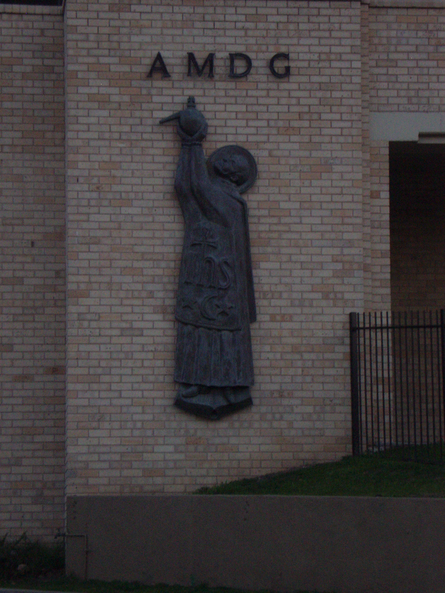 Statue of St Ignatius of Loyola by Tom Bass, first placed on Wallace Wing in 1959, now on the side of the Ramsay Hall at St Ignatius' College, Riverview, Sydney, Australia. Ignatius is standing on a book which has on its left page "The Pilgrim". The Symbols on the Chasuble are taken from the first seal of the Society of Jesus. The crescent moon refers fo Jerusalem, the stars suggest his lifelong contemplation of a universe created by a loving God. IHS is the first three letters of Jesus' name, combined with the cross. His arms are upheld in a Priestly gesture of offering, in this case a spirit retort, in which liquids are made holy, on which there lies a small cross. The destination of the outstretched arms' offering is "AMDG", a common Jesuit motif that reveals a phrase "Ad Maiorem Dei Gloriam", "To the Greater Glory of God".